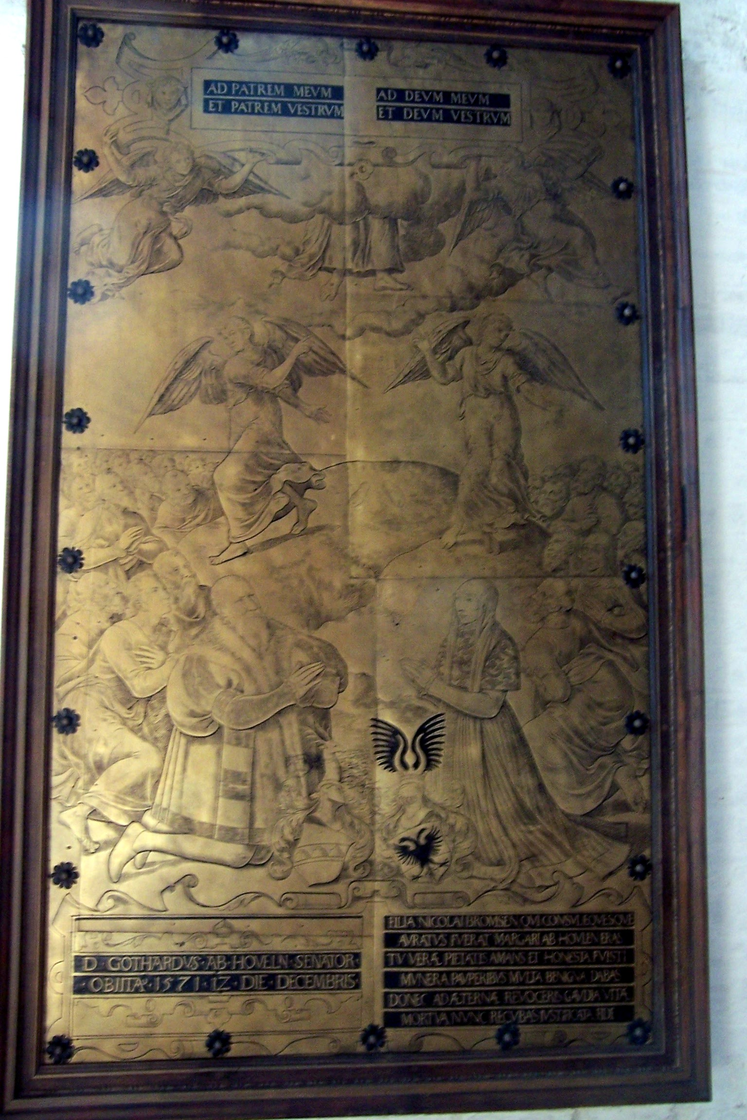 Brass epitaph for Gotthard (IV.) von Höveln and his wife in the Marienkirche, Lübeck, probably made by Mattias Benningk